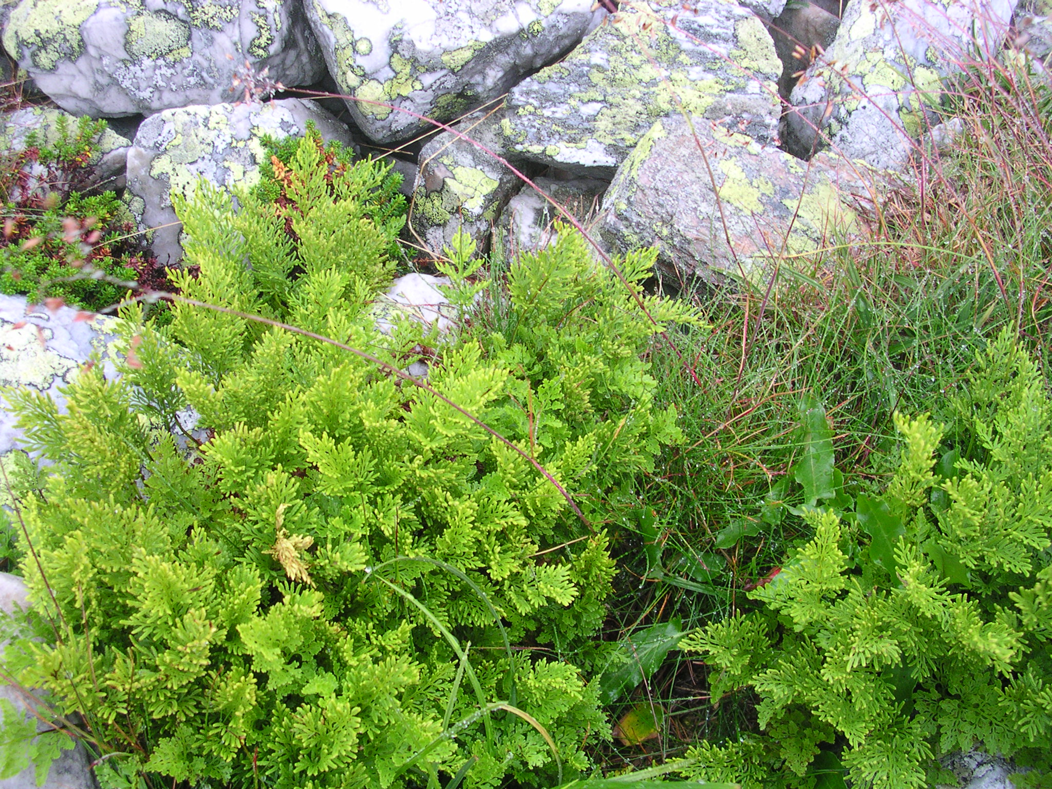 Parsley fern - Cryptogramma crispa